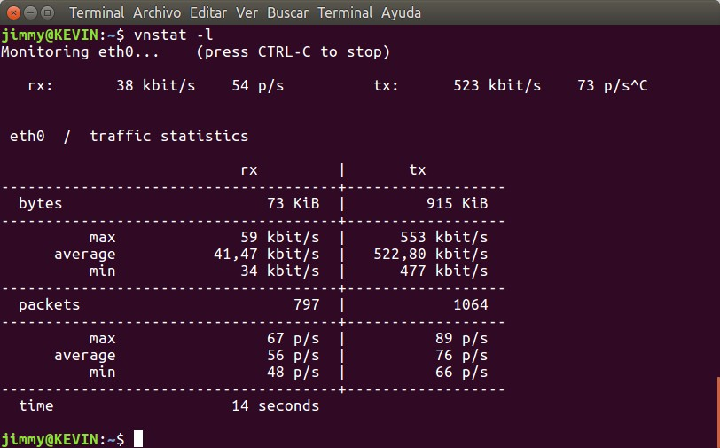 Executing vnStat on console terminal with "-l" parameter for network statistics in real time on a GNU/linux based computer.